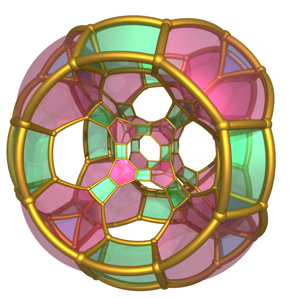 Schlegel diagram of cantitruncated tessaract and some faces